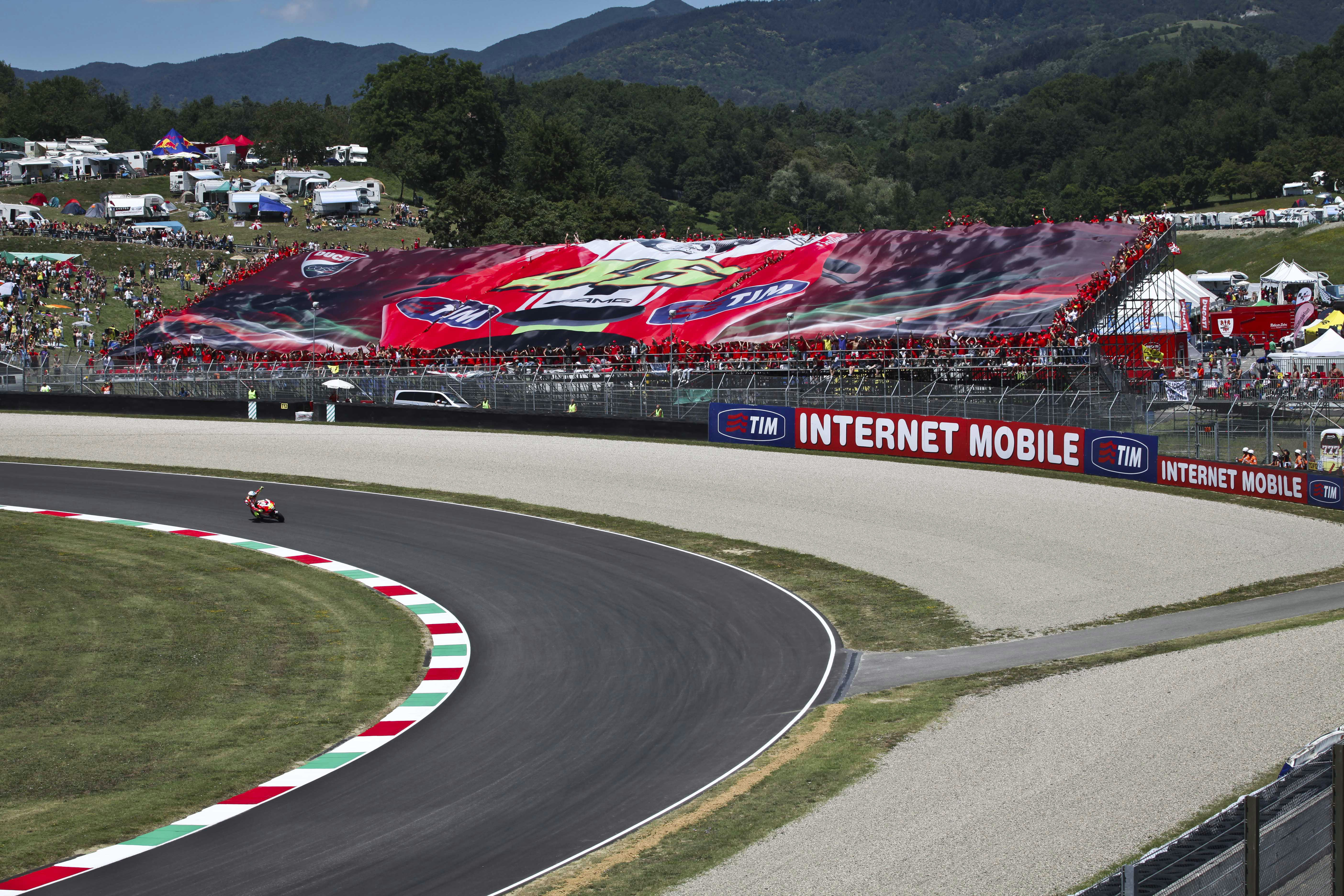 Ducati ambience